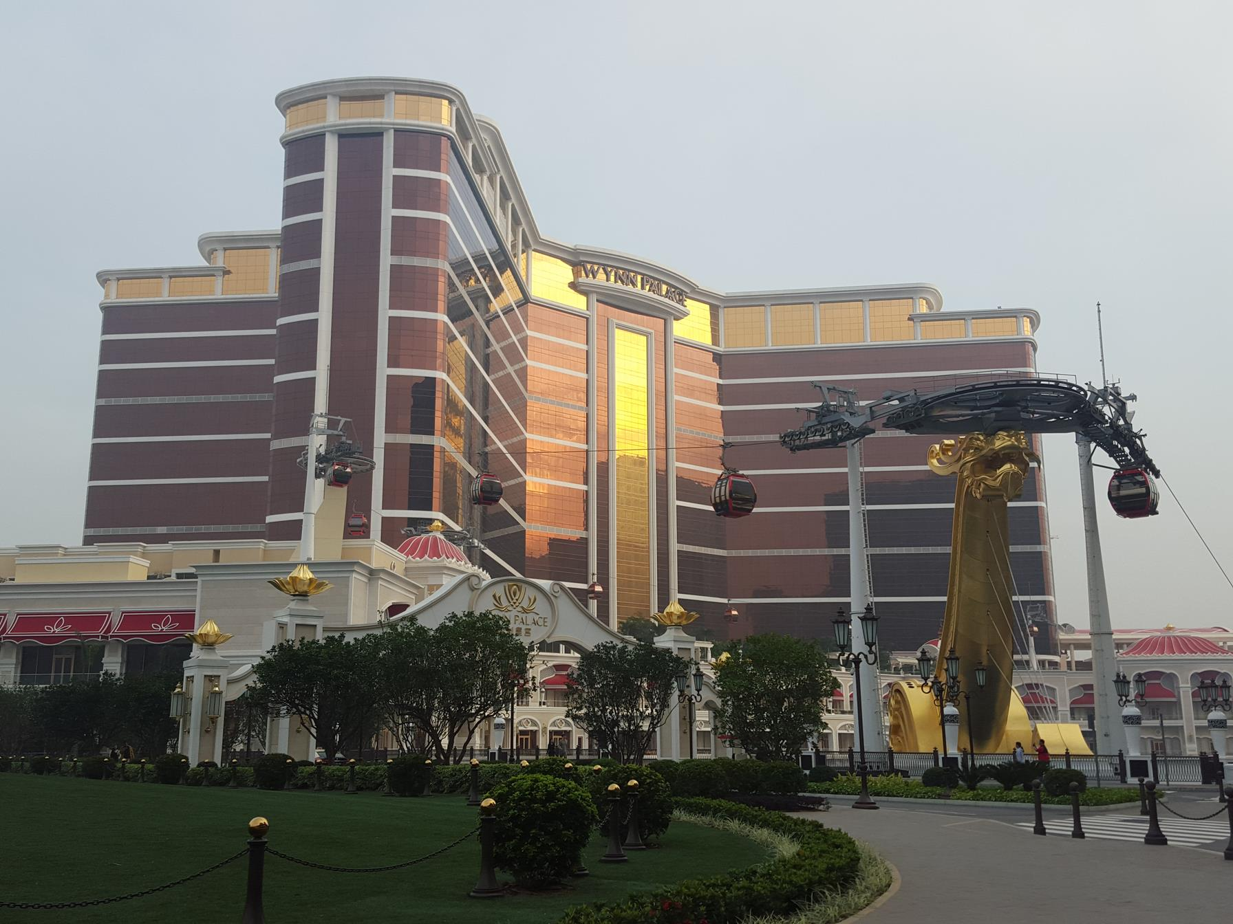 Wynn Palace, Cotai